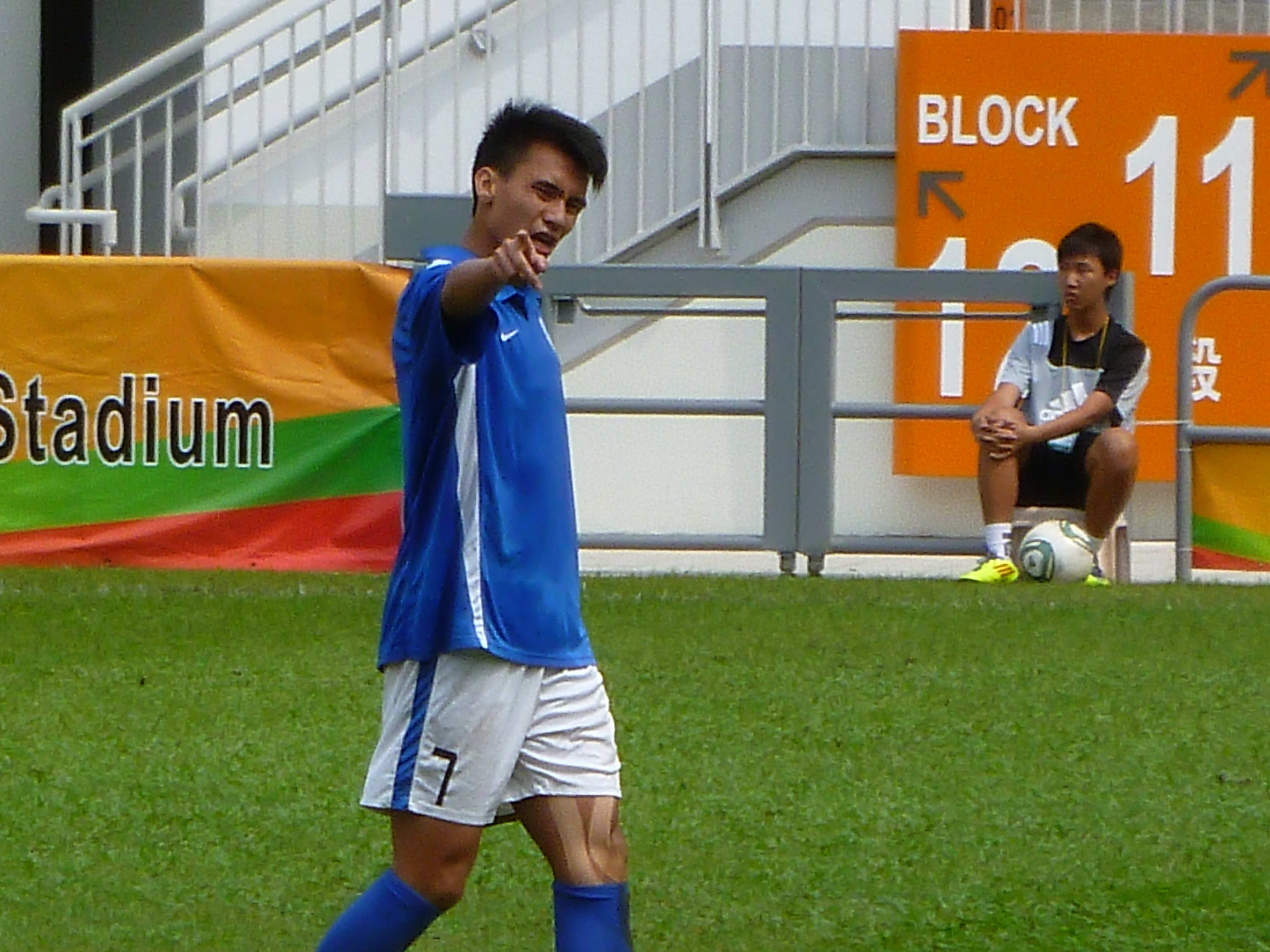 Yuen Tsun Nam (28 Apr 2012 Mong Kok Stadium; Hong Kong FA Cup; TSW Pegasus vs Hong Kong Sapling)